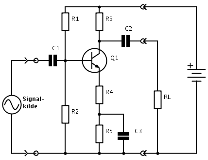 Common emitter transistor stage with local feedback.